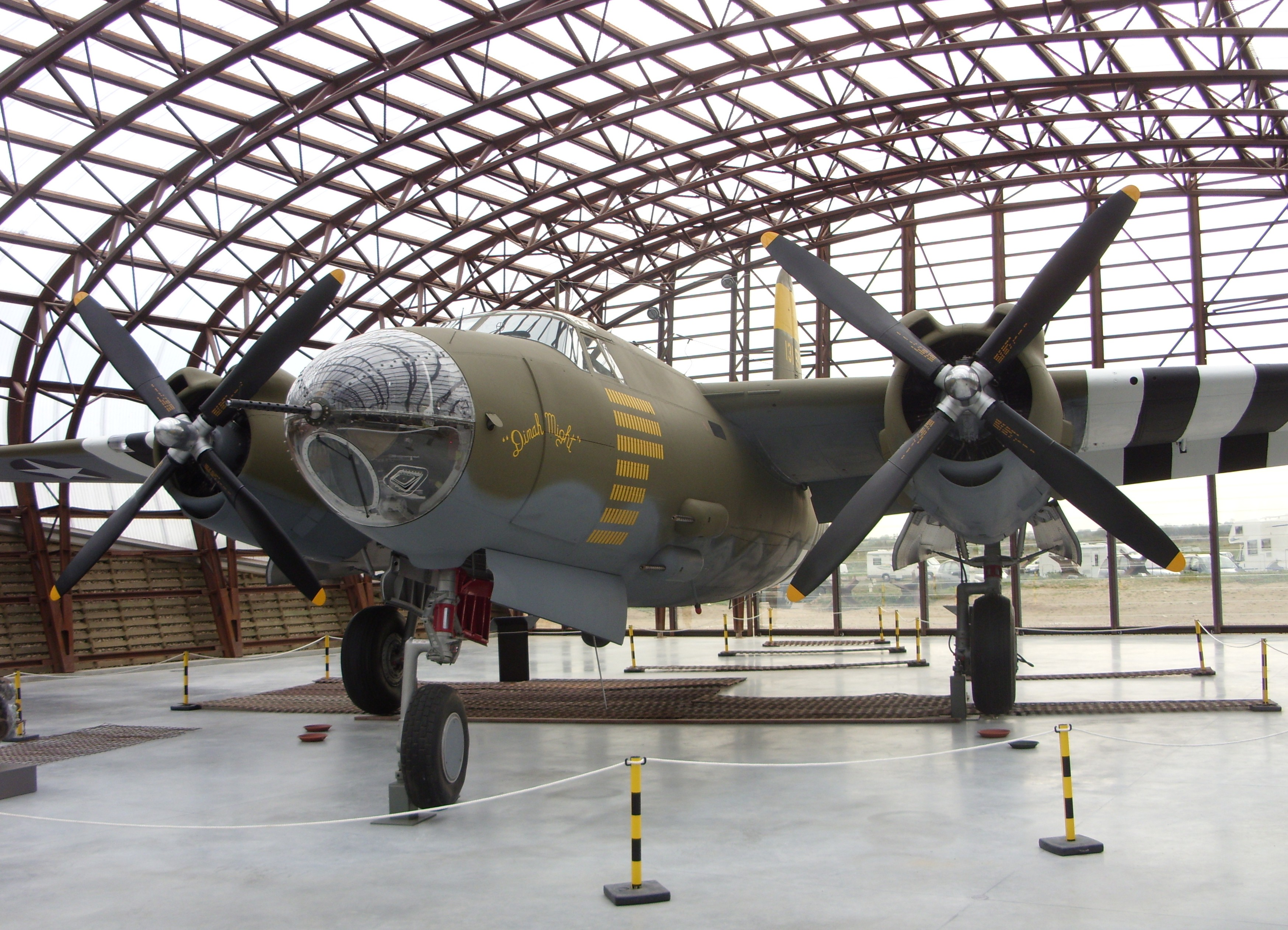 Martin B-26G Marauder 44-68219 painted to represent 41-31576 "131576" "Dinah Might" AN-Z of the 553rd Bomb Squadron of the United States Airmy Air Force and on display at the Utah Beach Museum (Musée du Débarquement Utah Beach)